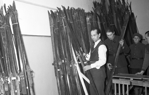 Skis are collected for military use during the Winter War.